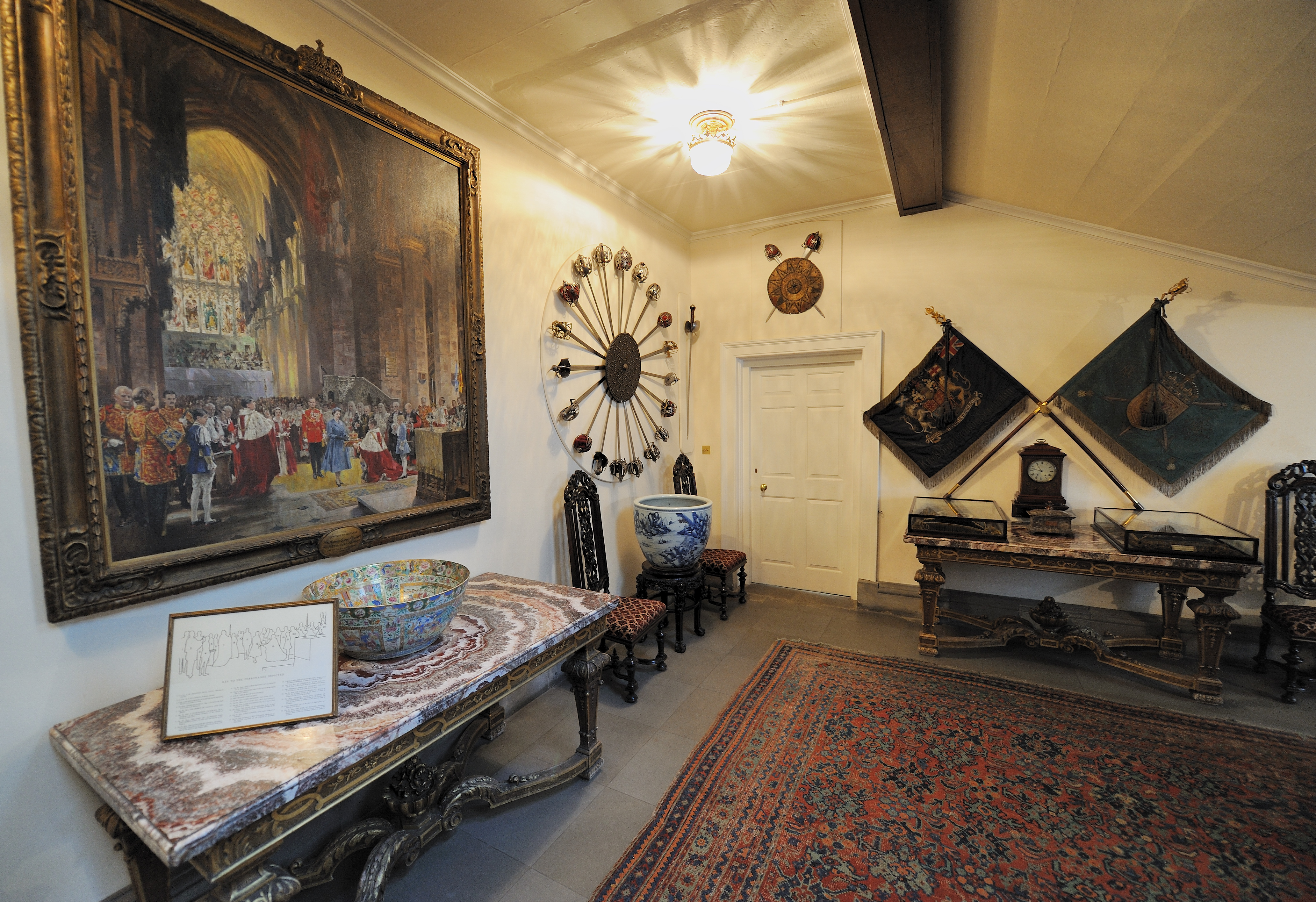 The Landing from the great stairwell in Holyrood Palace.